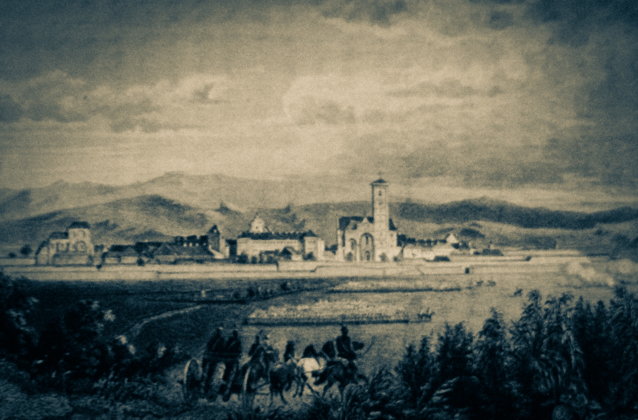 Alba-Iulia by Ludwig Rohbock